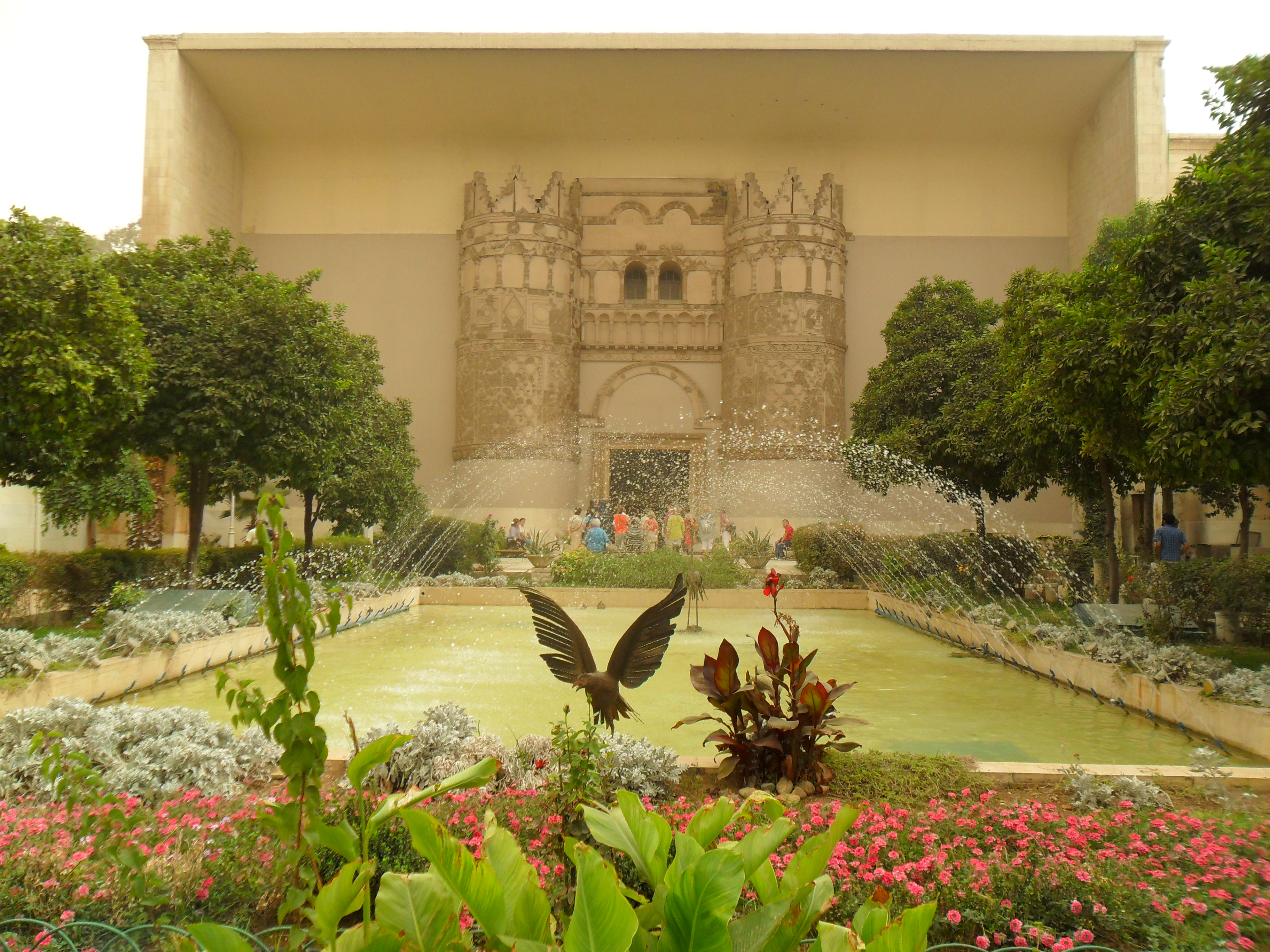 The gate of the Umayyad desert-castle Qasr el-Heir al-Gharbi in the Damascus National Museum, Syria.